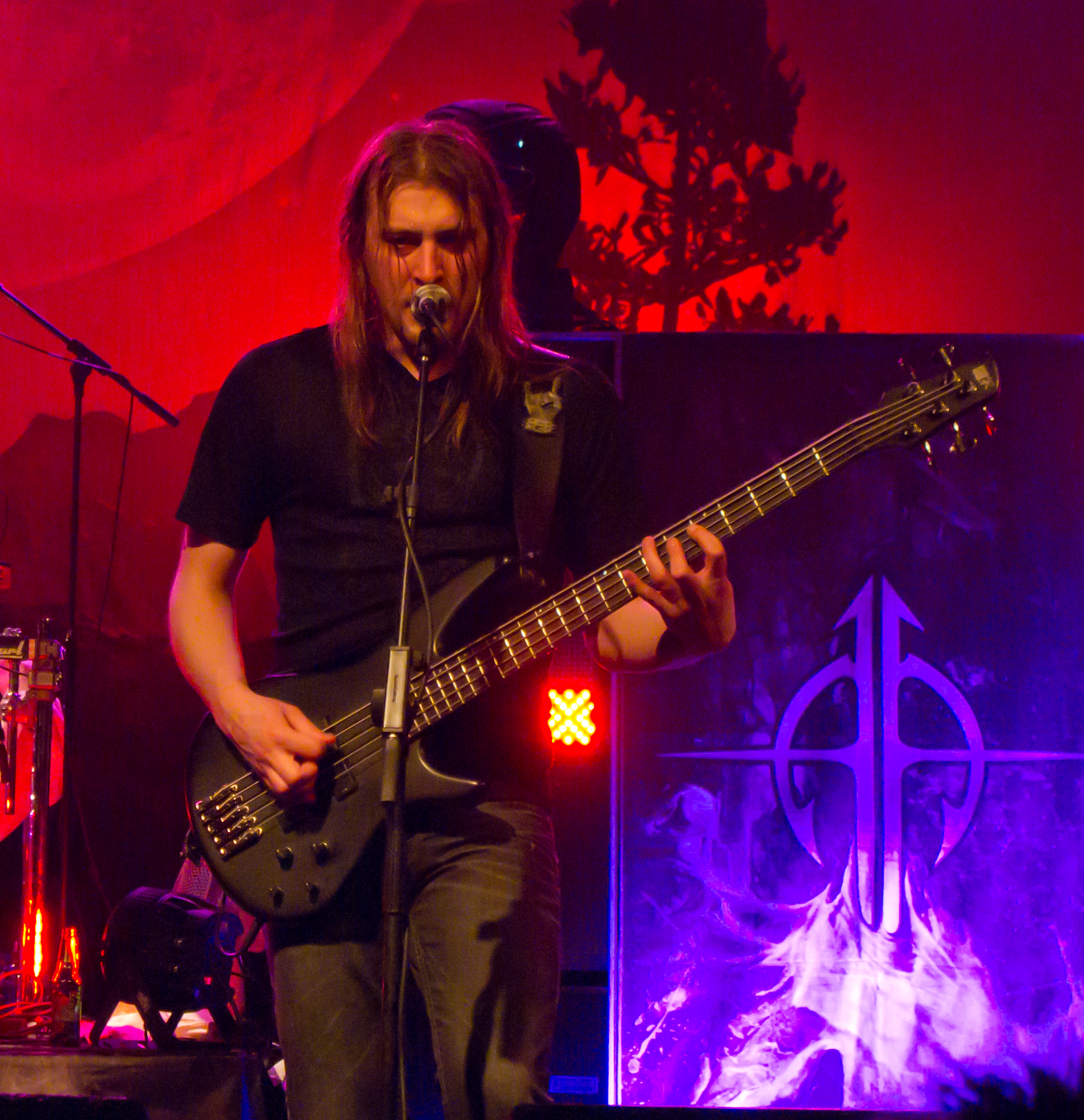 Marko Paasikoski (Sonata Arctica) in concert.